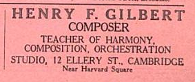 Advertisement for Henry F. Gilbert (1868-1928) in Cambridge, Massachusetts, USA